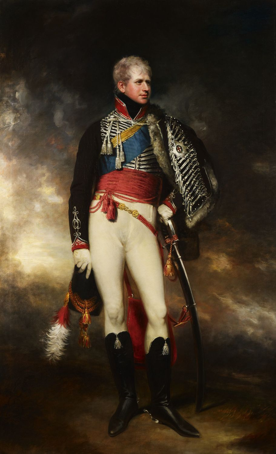 Portrait of Prince Ernest, Duke of Cumberland, later King of Hanover (1771-1851), by Sir William Beechey R.A. (1753-1839), painted 1797-1802. British Royal Collection.